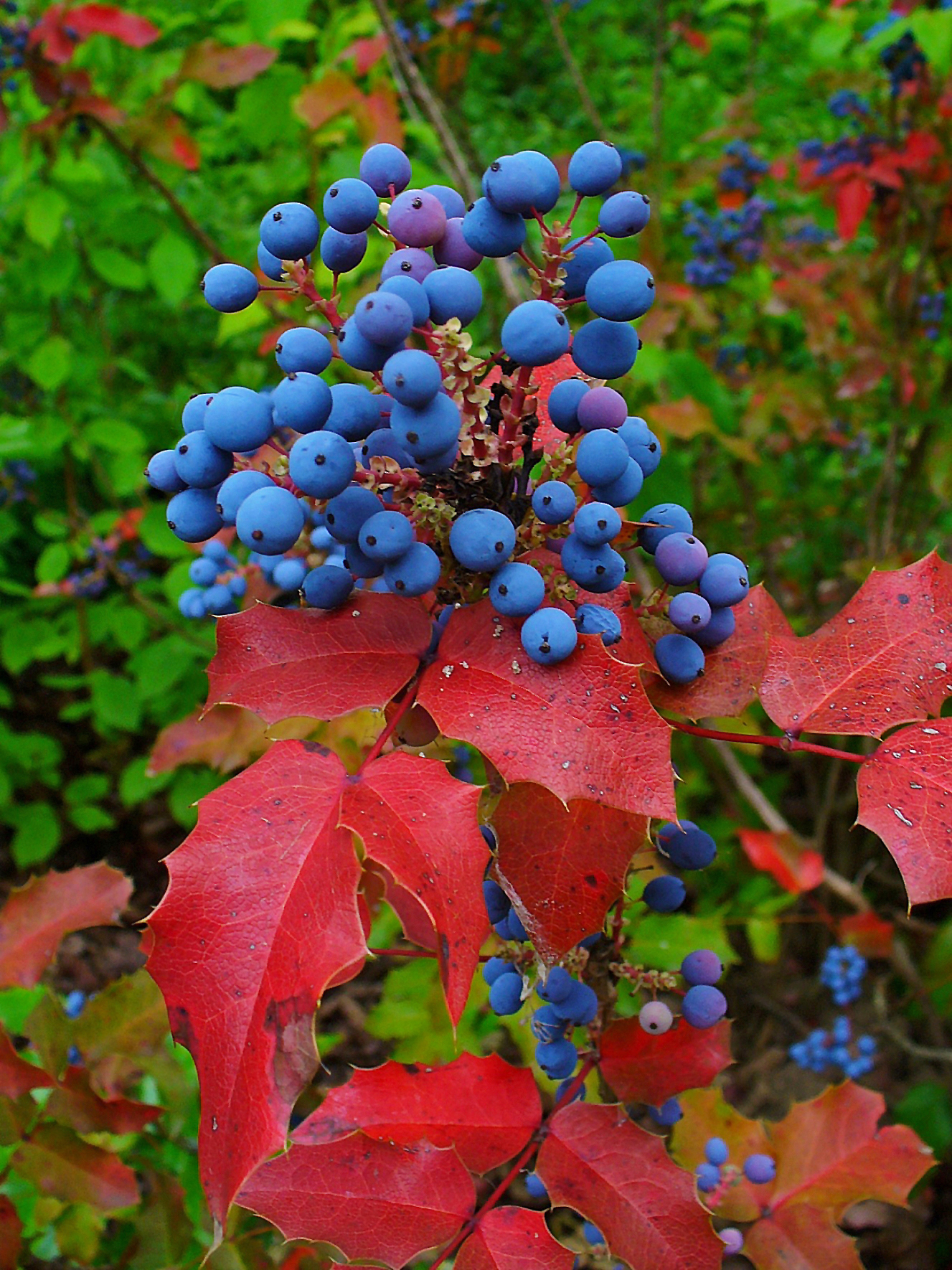 Mahonia aquifolium, Berberidaceae, Oregon-grape, infrutescence; Karlsruhe, Germany.